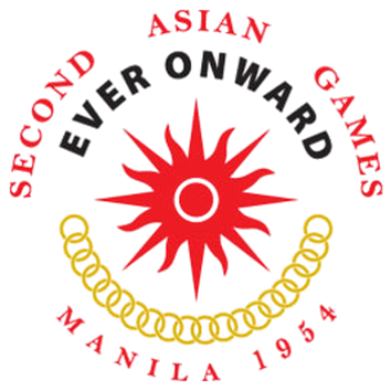 Logo of the second Asian Games, held in Manila in 1954.